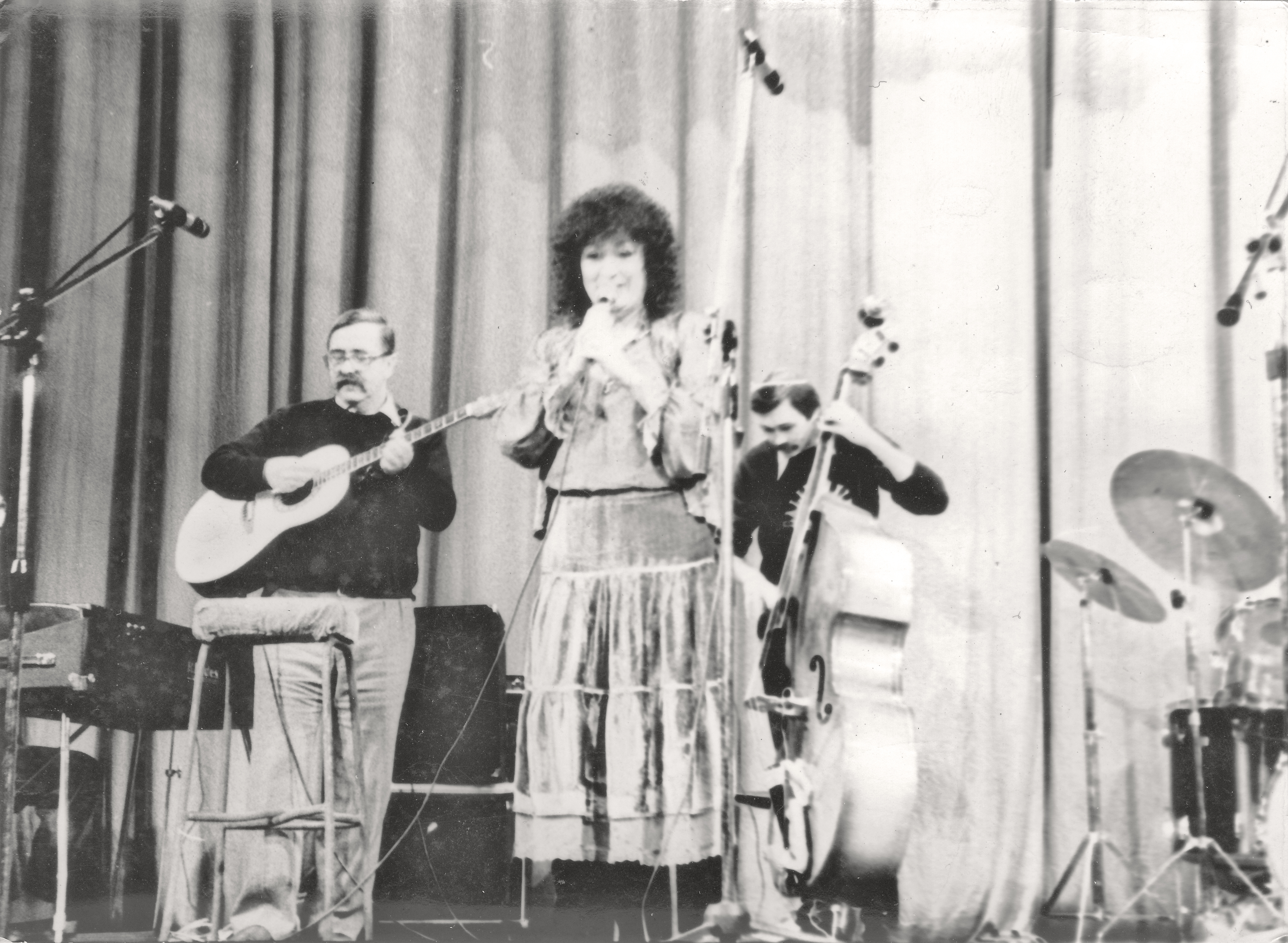 Jazz Concert at the Nis Theater, 1981: Nada Knežević (vocals), Miša Blam (double bass)